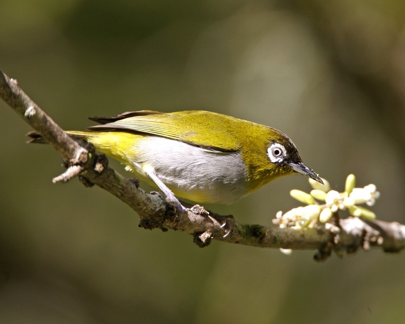 Black-capped White-eye Zosterops atricapilla Nominate race, Zosterops atricapilla atricapilla Kinabalu Park, Sabah, East Malaysia 6th. June 2009 Distribution: {map not accurate, should be limited to Borneo (including Sabah and Sarawak), Sumatra and Java} 690V7033